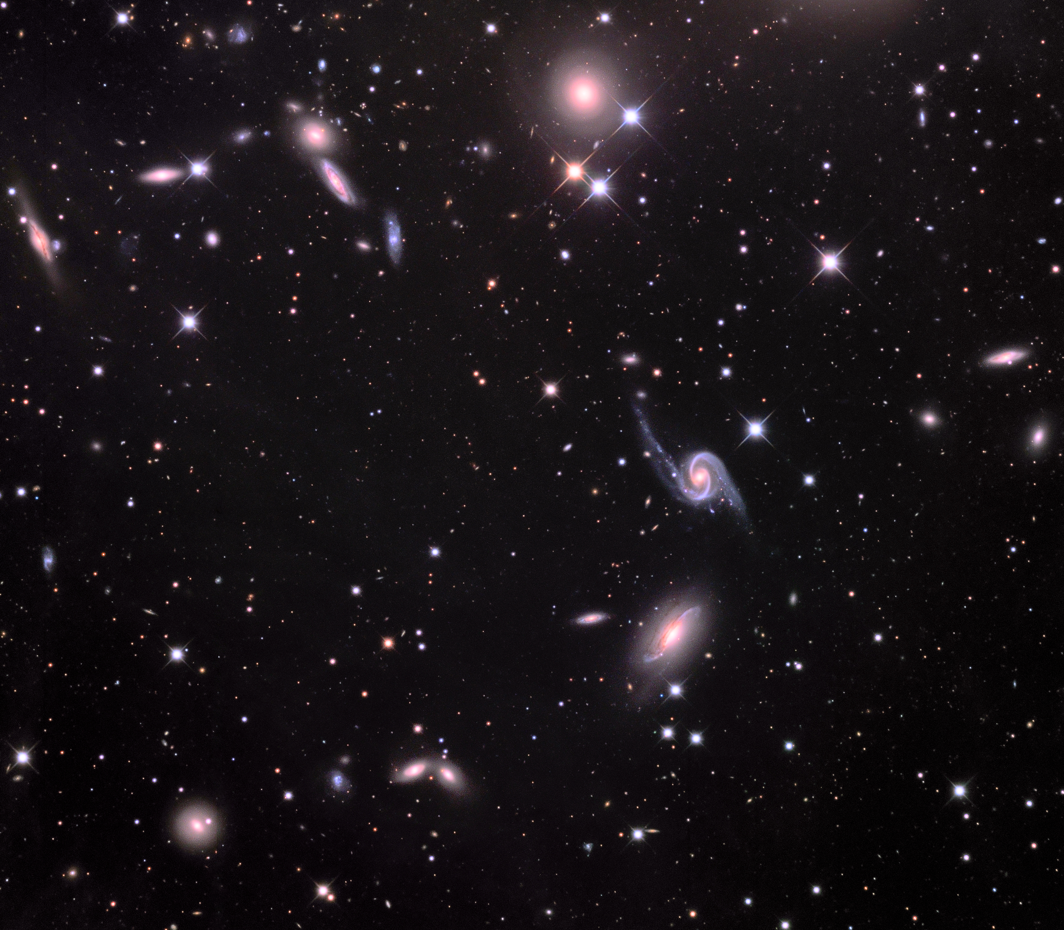 NGC 90 (right center) and other galaxies in 32 inch telescope. Courtesy: Joseph D. Schulman